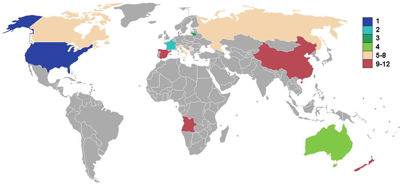 Final finishing places on Basketball at the 2000 Summer Olympics - Men's basketball.